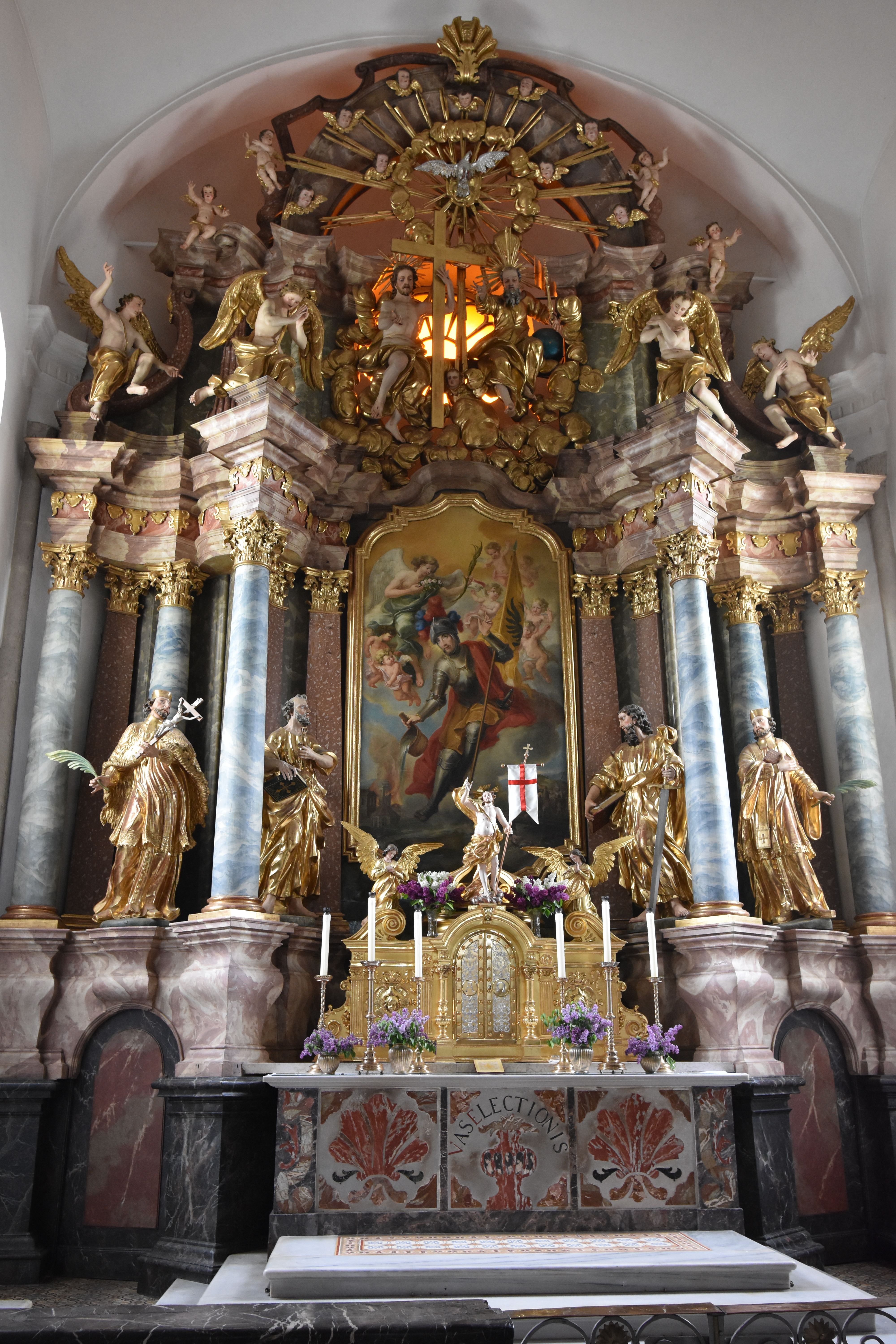 Church Groß Sankt Florian - Interior